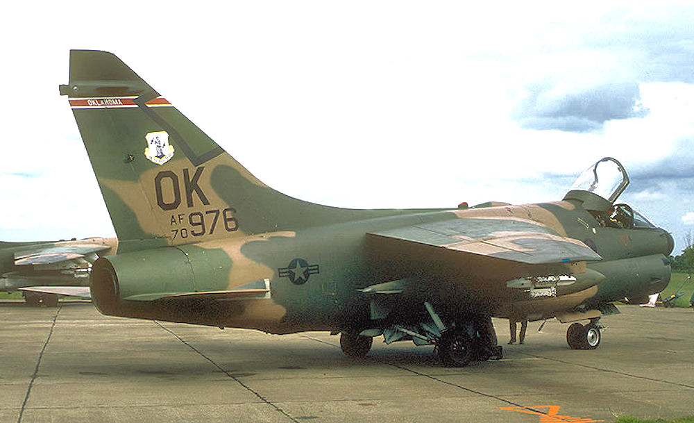 125th Tactical Fighter Squadron A-7D-8-CV Corsair II 70-976 1971: Aircraft delivered to 354th Tactical Fighter Wing/356th TFS, Myrtle Beach AFB, SC (C/N D-122) Transferred to 126th Tactical Fighter Squadron, OK Air National Guard, 1978 Transferred to 149th Tactical Fighter Squadron, VA Air National Guard, 1989 Transferred to AMARC as AE0064 Sep 30, 1991 Sent to reclamation, May 1997